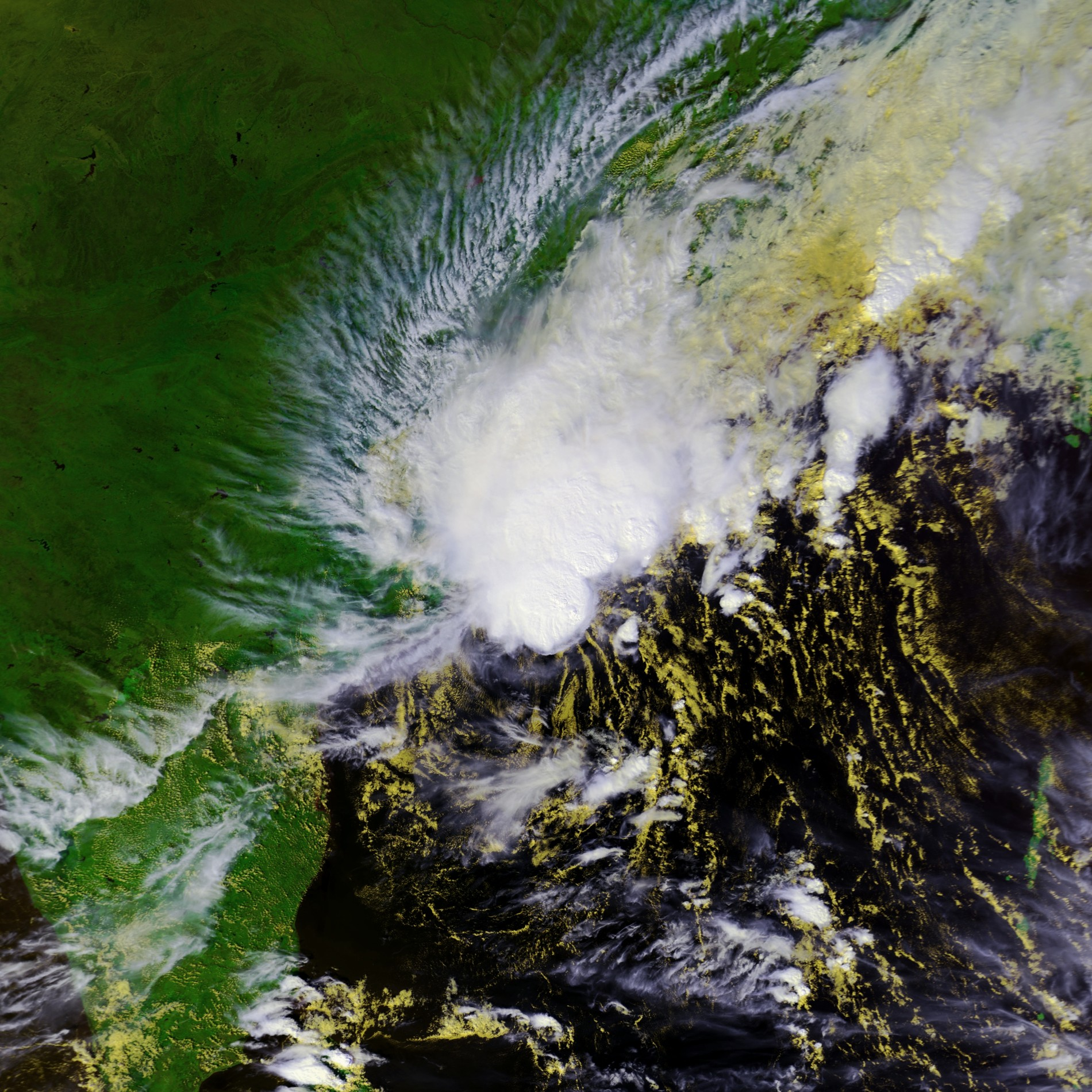 Tropical Cyclone 04B near peak intensity on November 11 at 0809 UTC. This image was produced from data from NOAA-16, provided by NOAA. Maximum sustained winds were about 35 to 40 mph at the time.